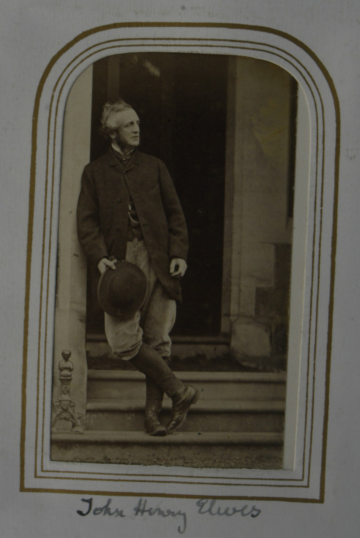 My photo (R. de SalisRodolph (talk)) of a cdv photo of John Henry Elwes (1815-1891), of Colesbourne, DL, JP.Henry John Elwes was his eldest son.